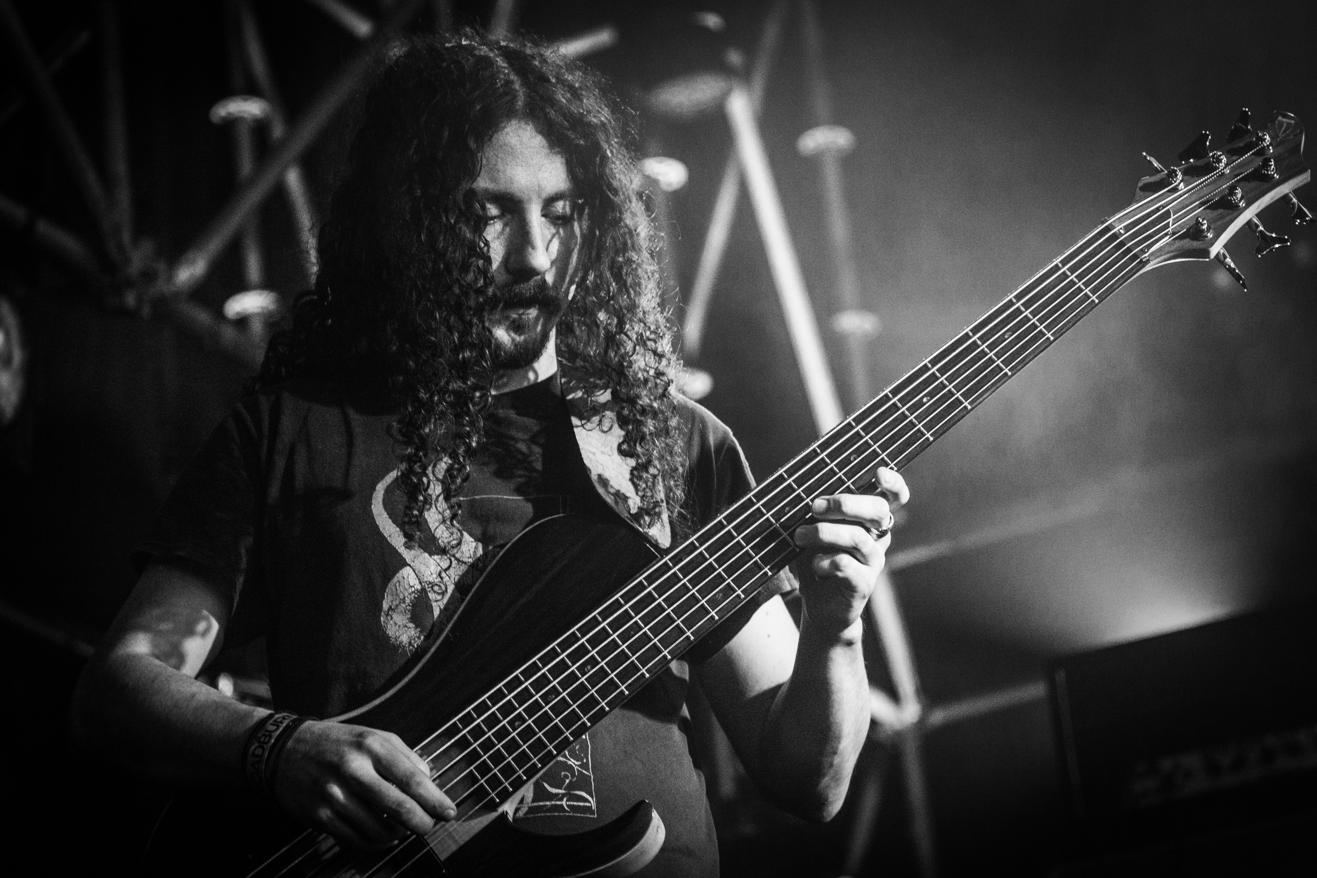 Bell Witch performing live at Roadburn Festival 2018